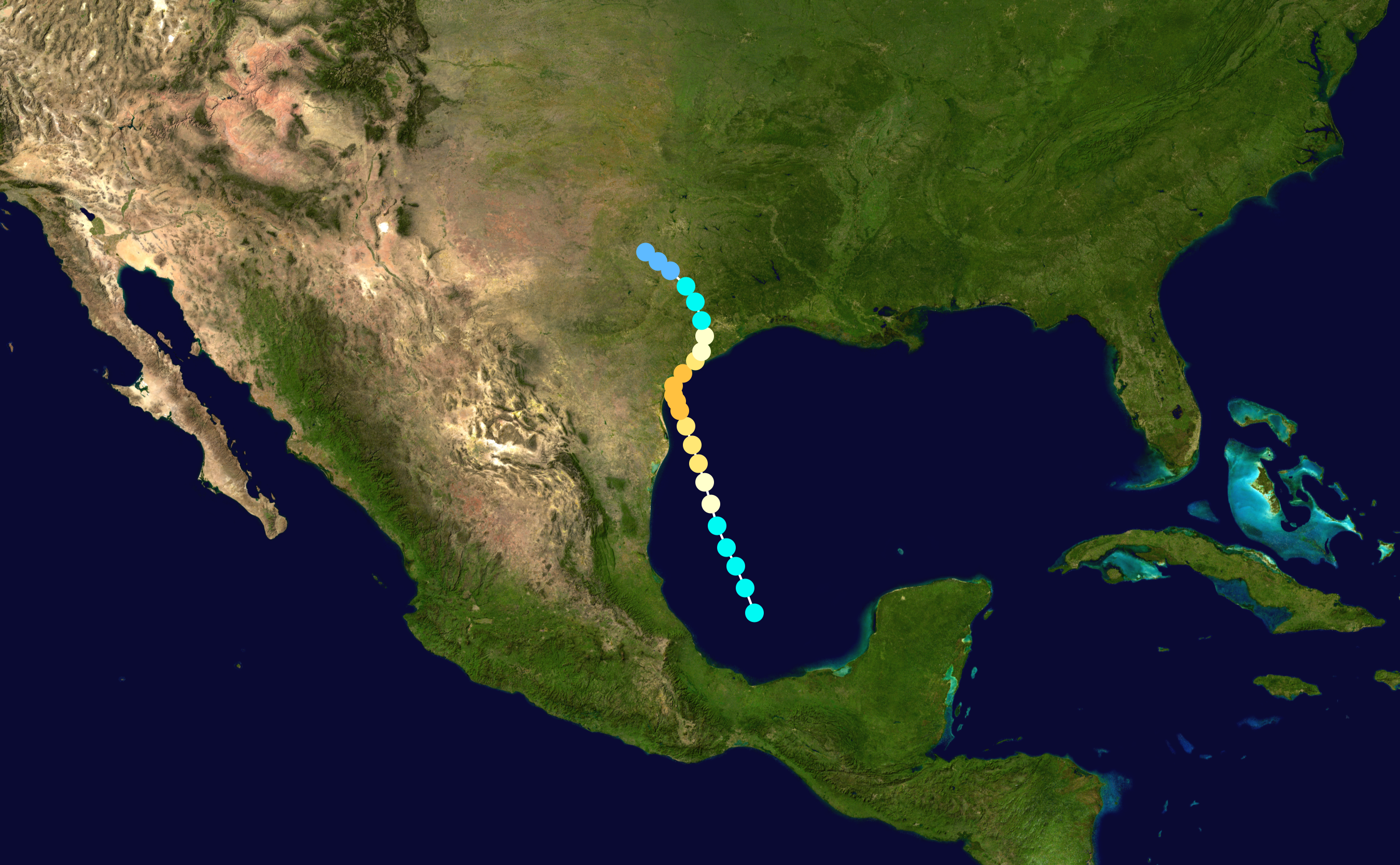 1945 Atlantic hurricane 5 (1945) track. Uses the color scheme from the Saffir-Simpson Hurricane Scale.